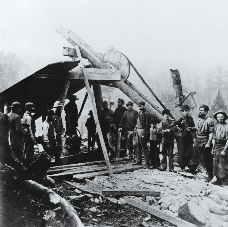 Photograph, A shaft, Huntington Copper Mine, Bolton, QC, 1867, William Notman (1826-1891), Silver salts on paper mounted on paper - Albumen process - 8 x 10 cm